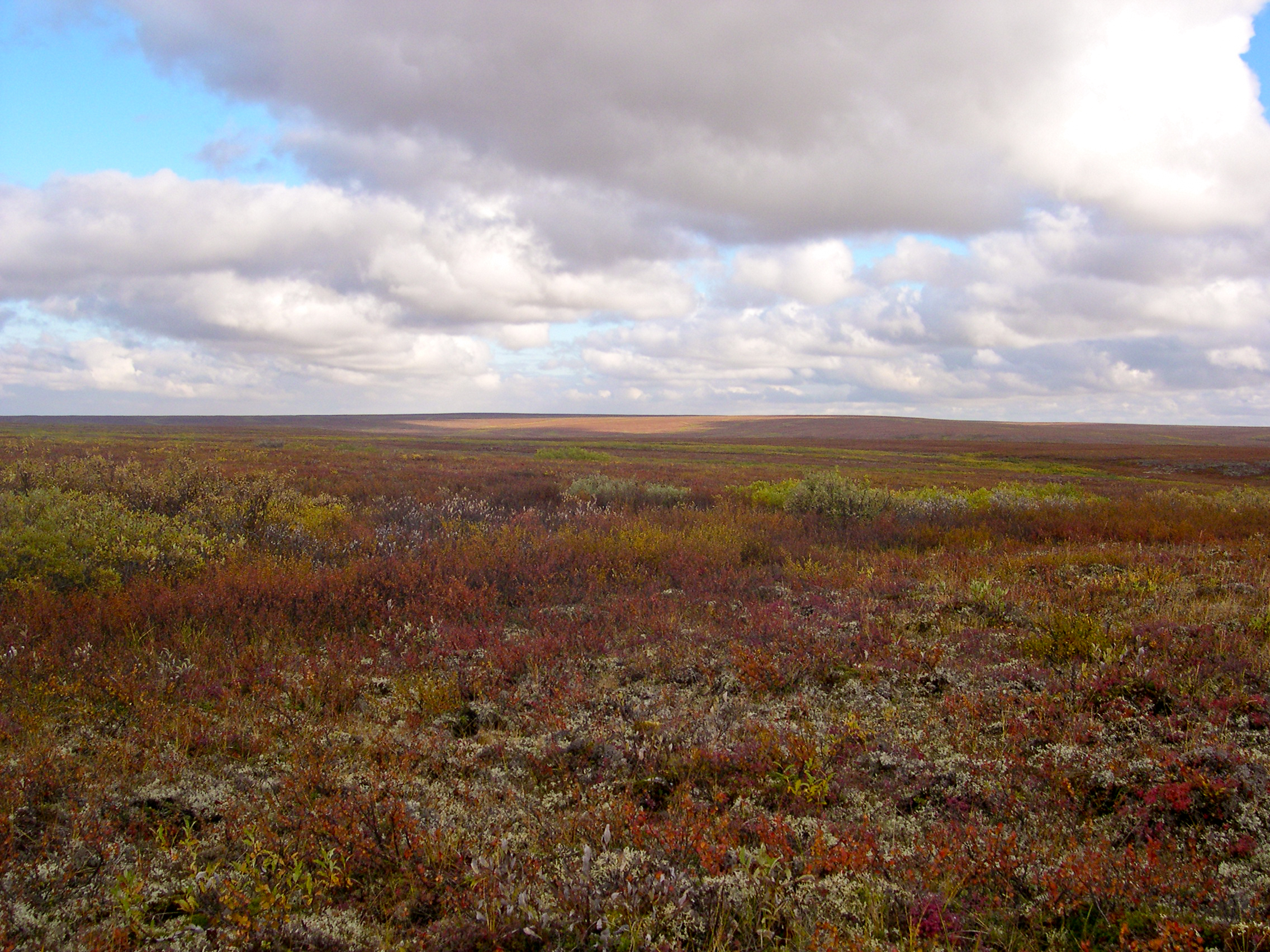 The Bolshezemelskaja Tundra, Russia